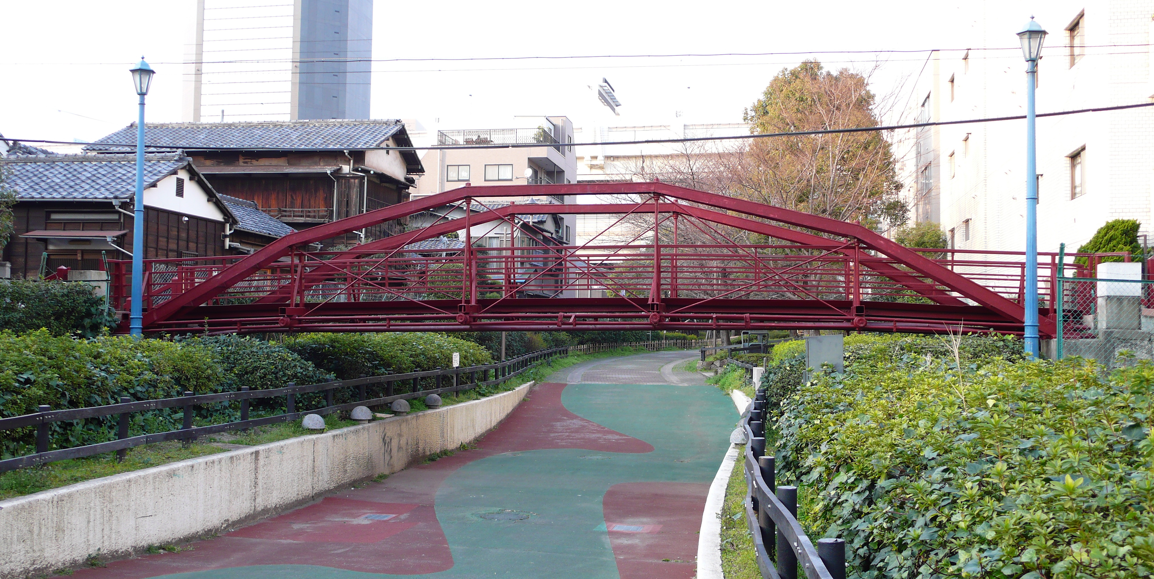 Hachiman-bashi Bridge